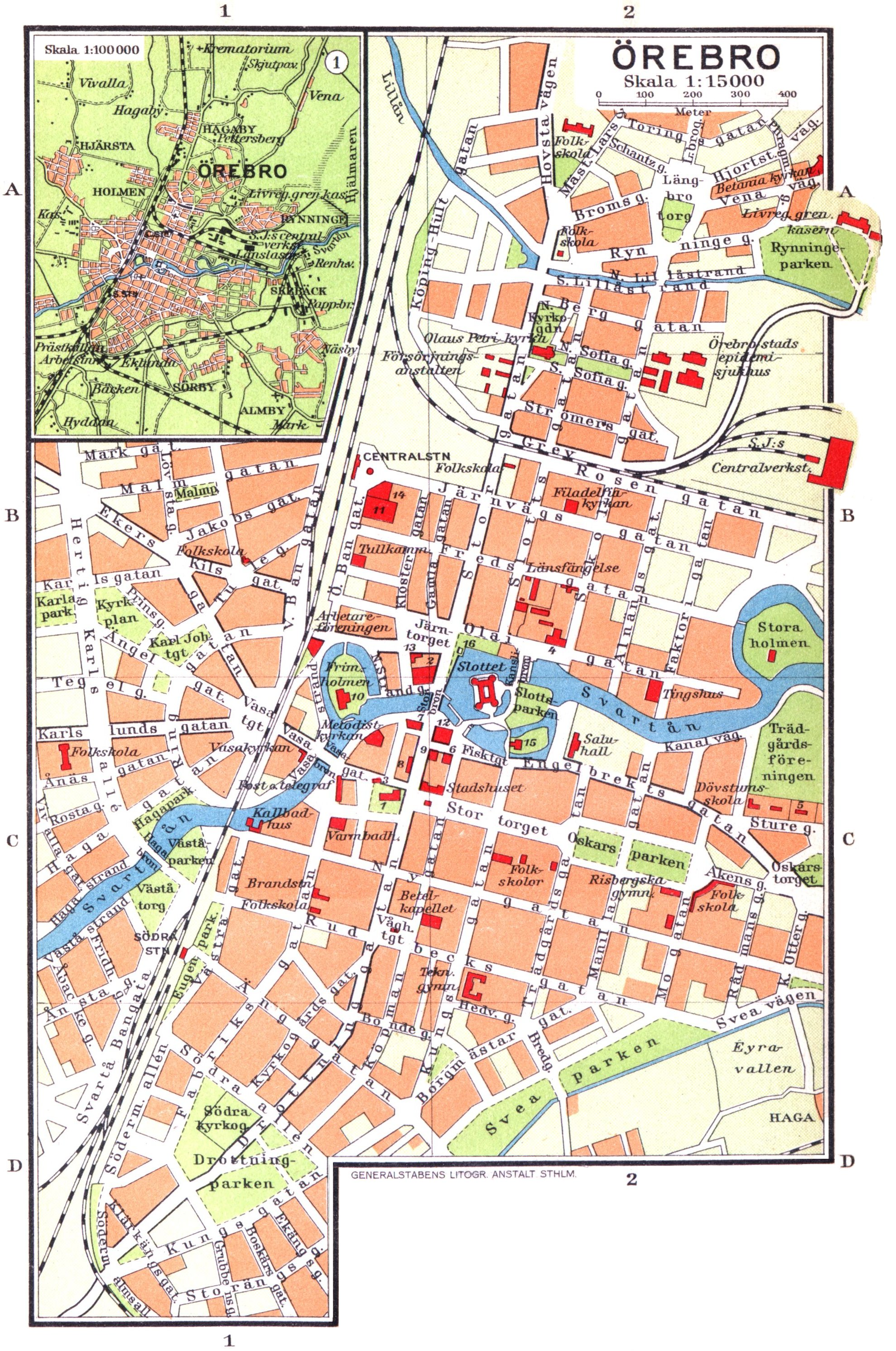 Map of Örebro in Sweden.